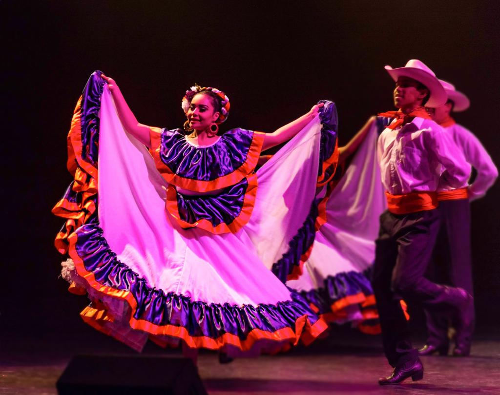 citlalli and Luis